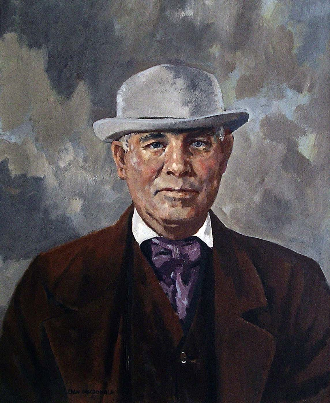 Painting of David Fife, the developer of Red Fife Wheat